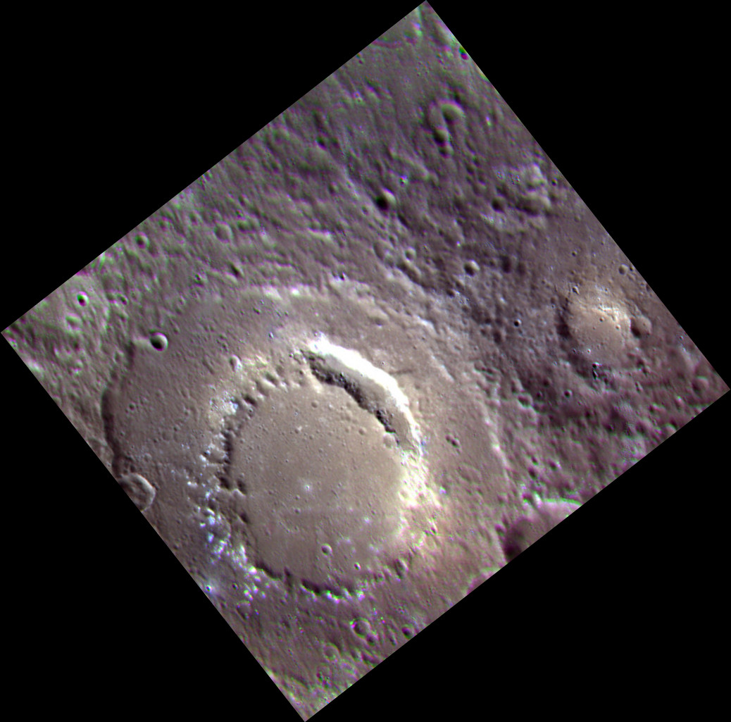 Scarlatti crater on Mercury. Approximate color representation combining three images acquired by MESSENGER Wide Angle Camera (EW1023663767I, EW1023663771F, EW1023663787G) with I (996.2 nm), G (748.7 nm), and F (433.2 nm) filters. Combined in GIMP software as RGB (Red-Green-Blue), and then rotated so that north is up. The bluish spots near the bottom of the image are hollows. Note the enormous depression along the northeast peak ring. Statistics for I image: Emission Angle: 24.9 Incidence Angle: 53.7 Latitude: 42.1 Longitude: 259.3 Phase Angle: 78.5